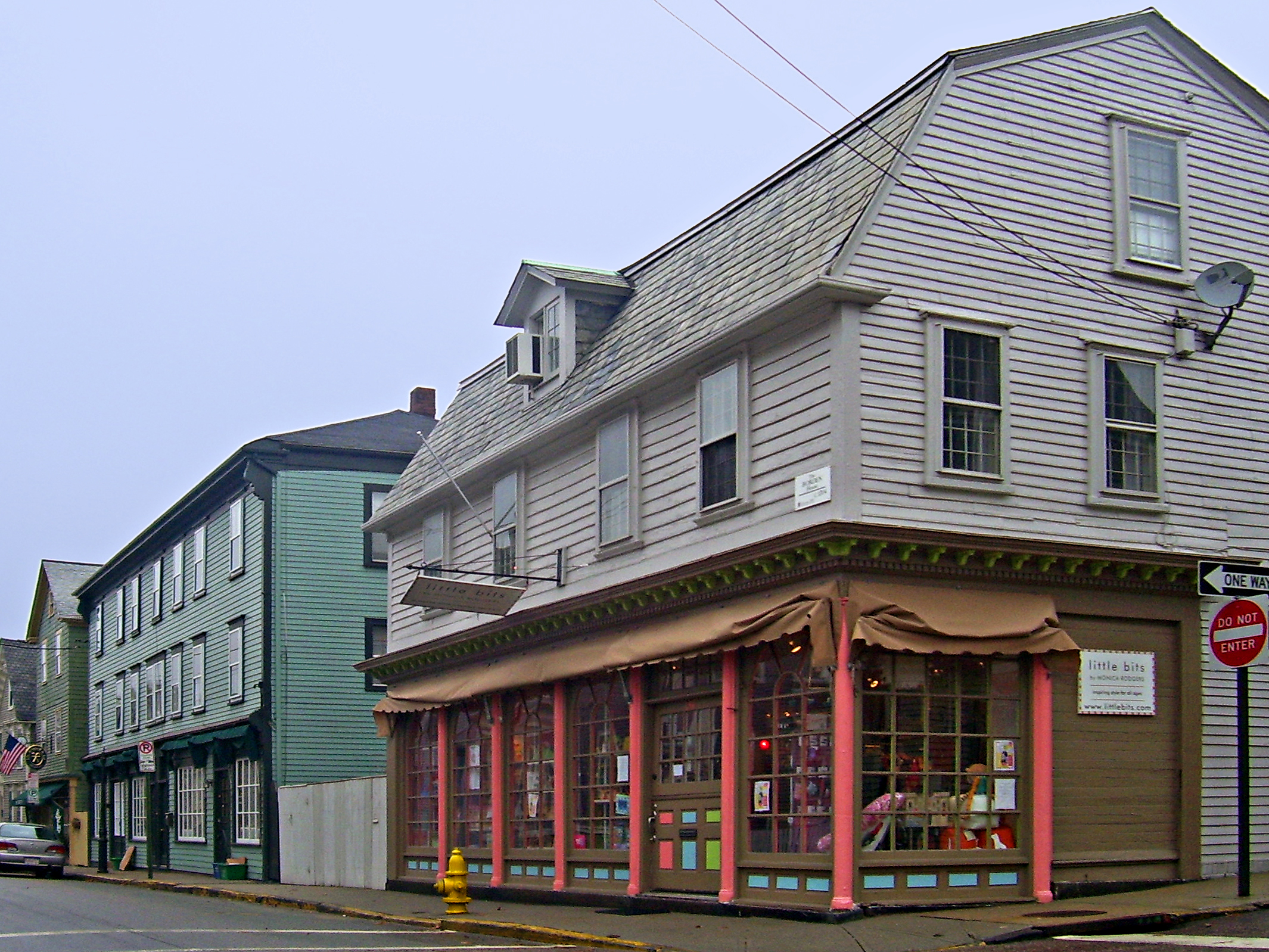 Historic, Colonial-era buildings along Spring Street just north of Mary Street in the Newport, RI, USA, historic district